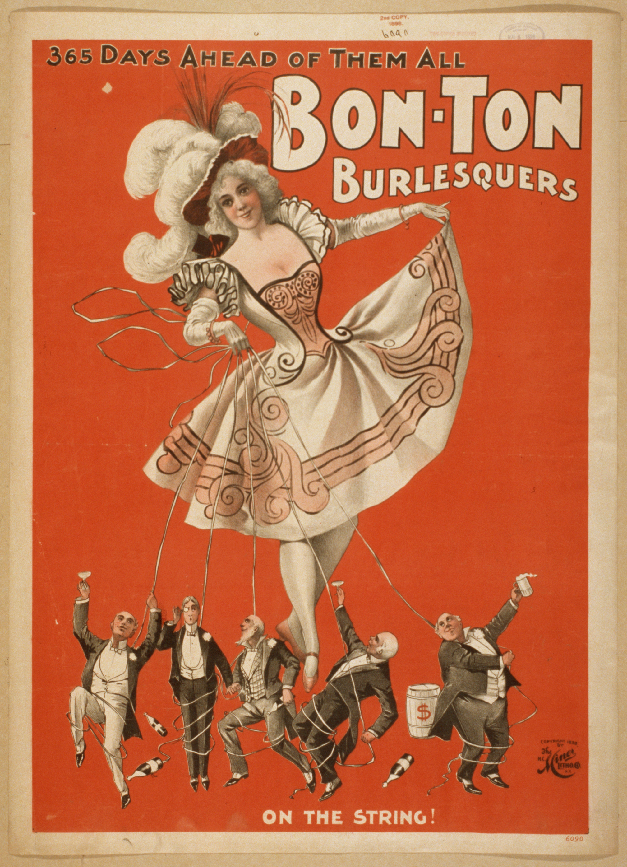 "Bon Ton Burlesquers 365 days ahead of them all." Color lithograph